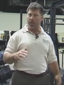 Coach Mark Rippetoe